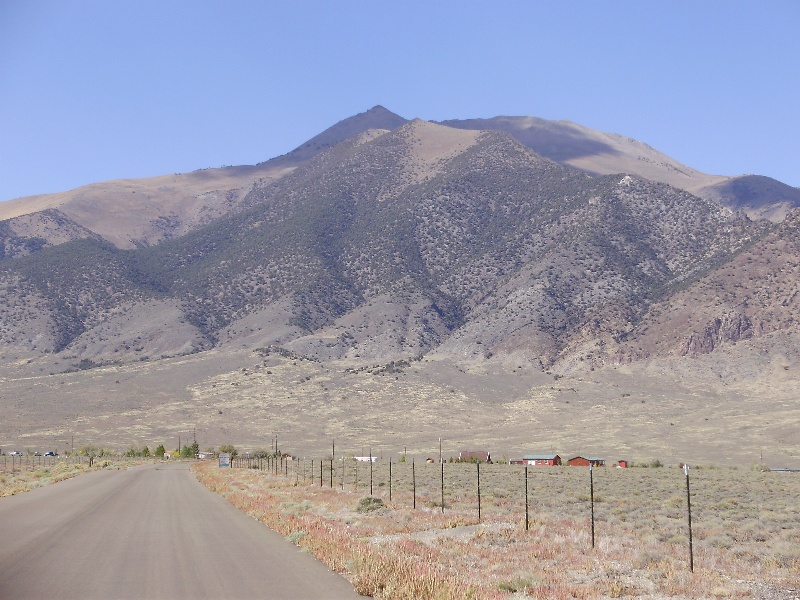 View of Bunker Hill from Tahoe Road in Kingston, Nevada